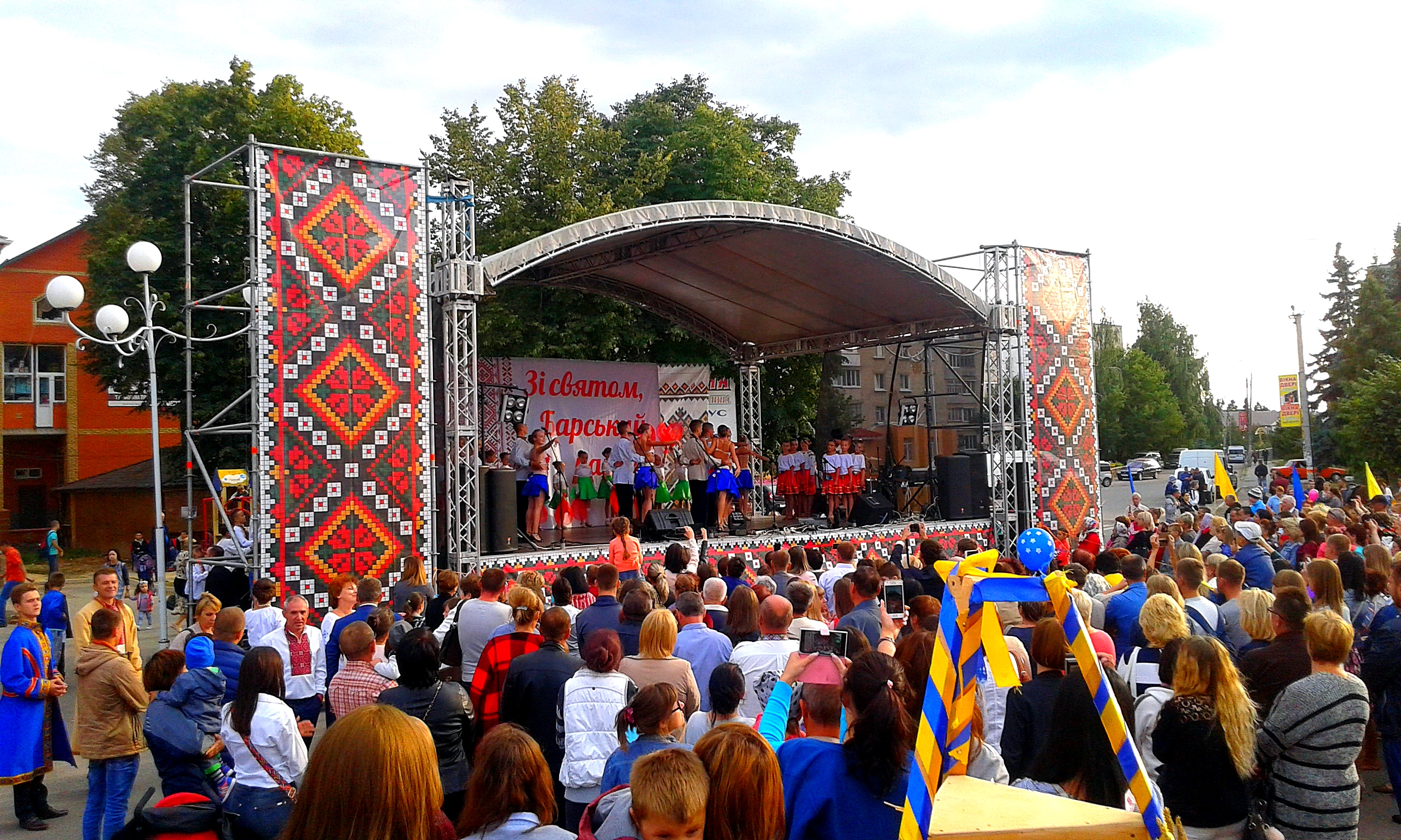 UKRAINIAN FOLKLORE FESTIVAL IN CITY OF BAR REGION OF VINNYTSIA STATE OF UKRAINE 20170824